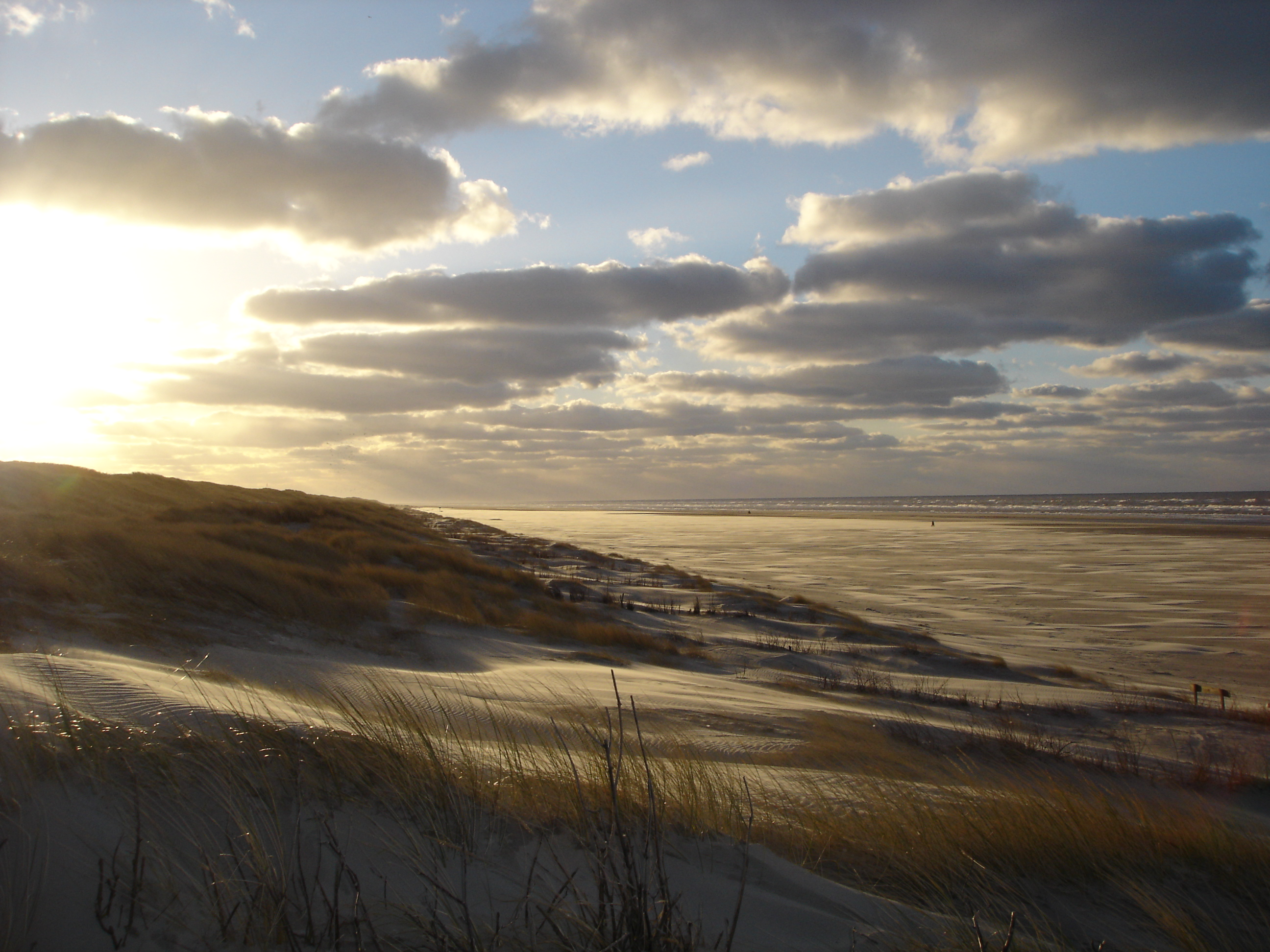 Beach on Juist, Germany in exceptional light.